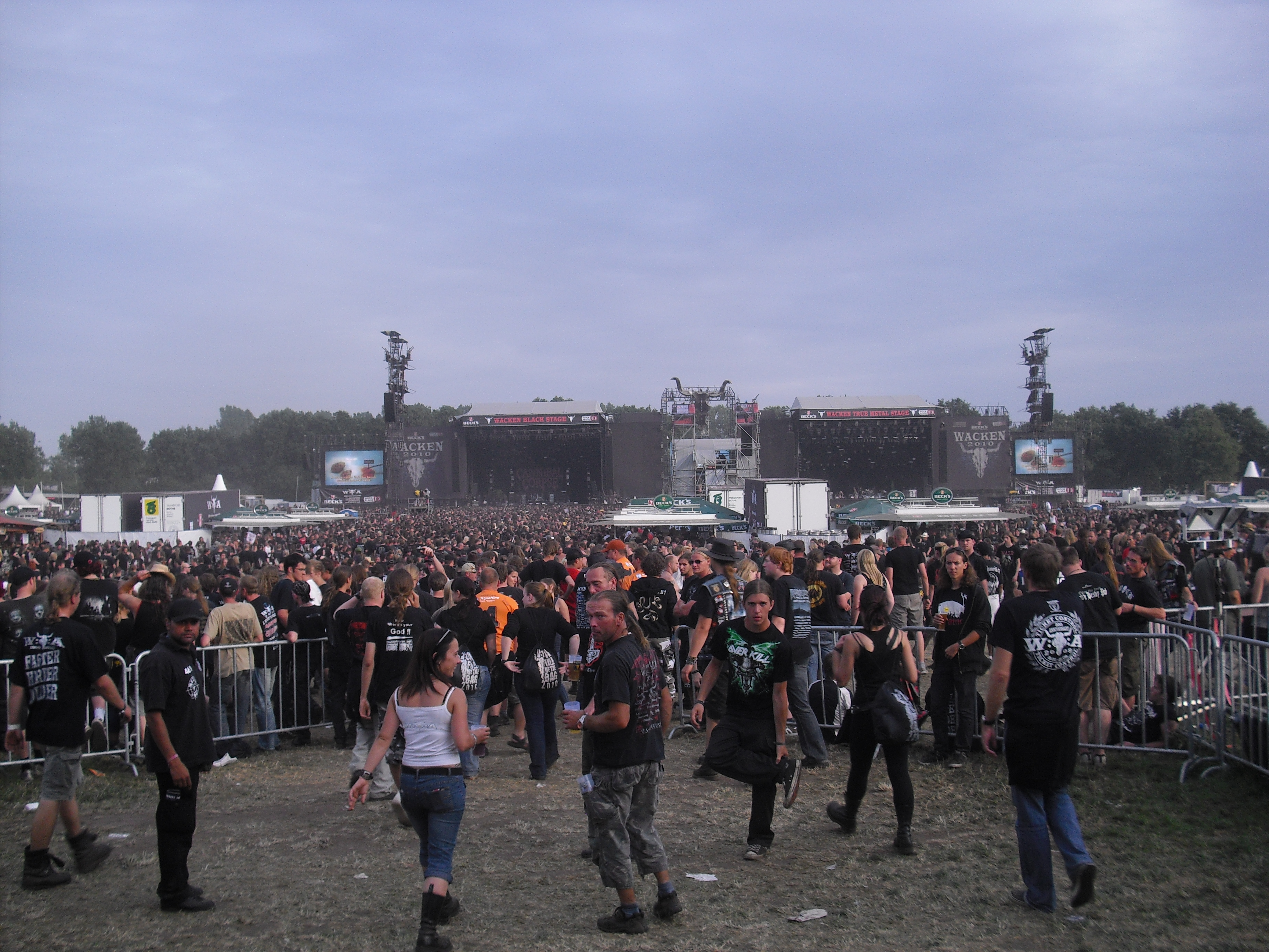 The festival grounds and main stages at Wacken Open Air, taken in the 2010 edition of the festival